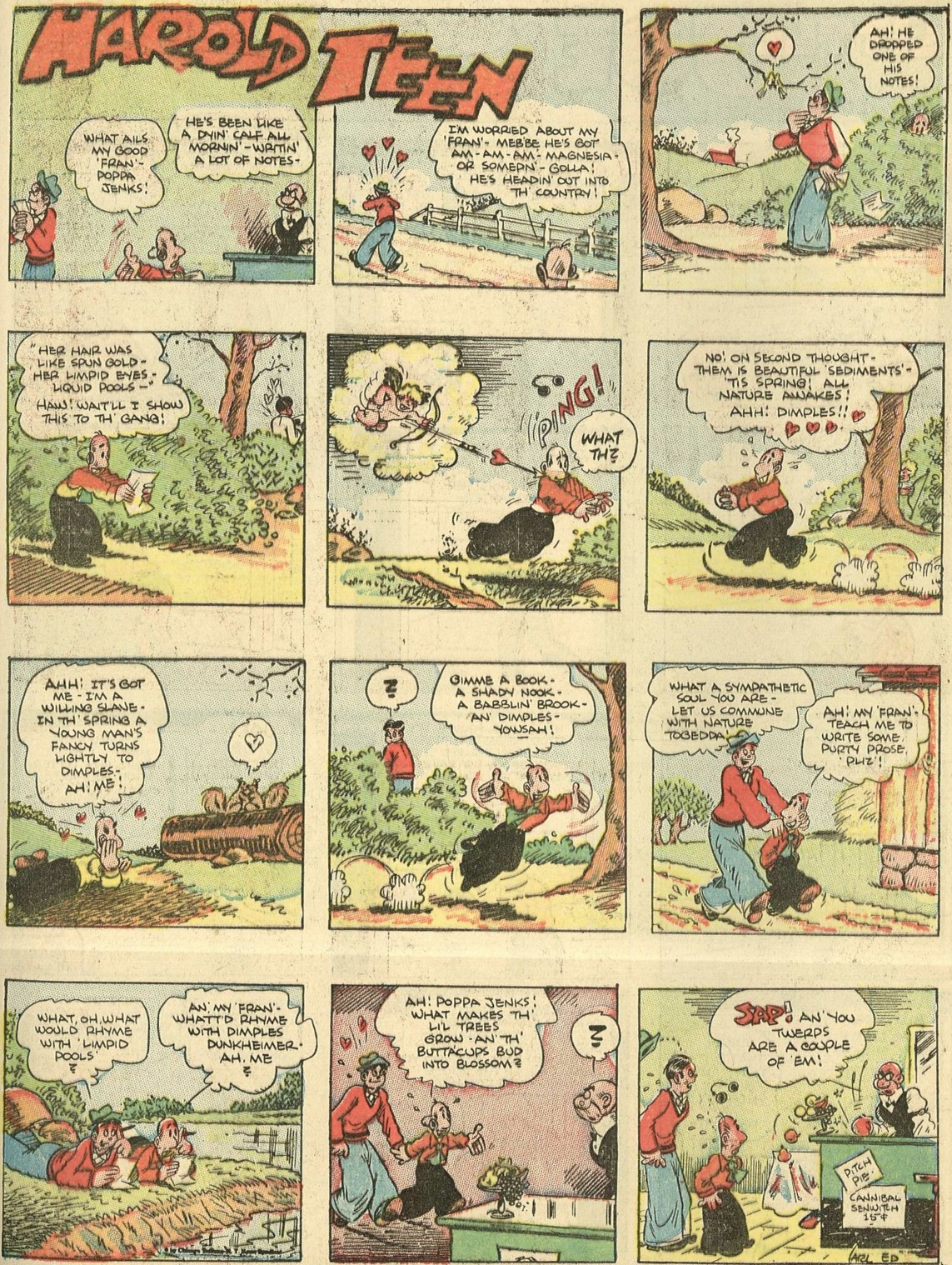 Harold Teen comic from page 45 of Popular Comics, #1